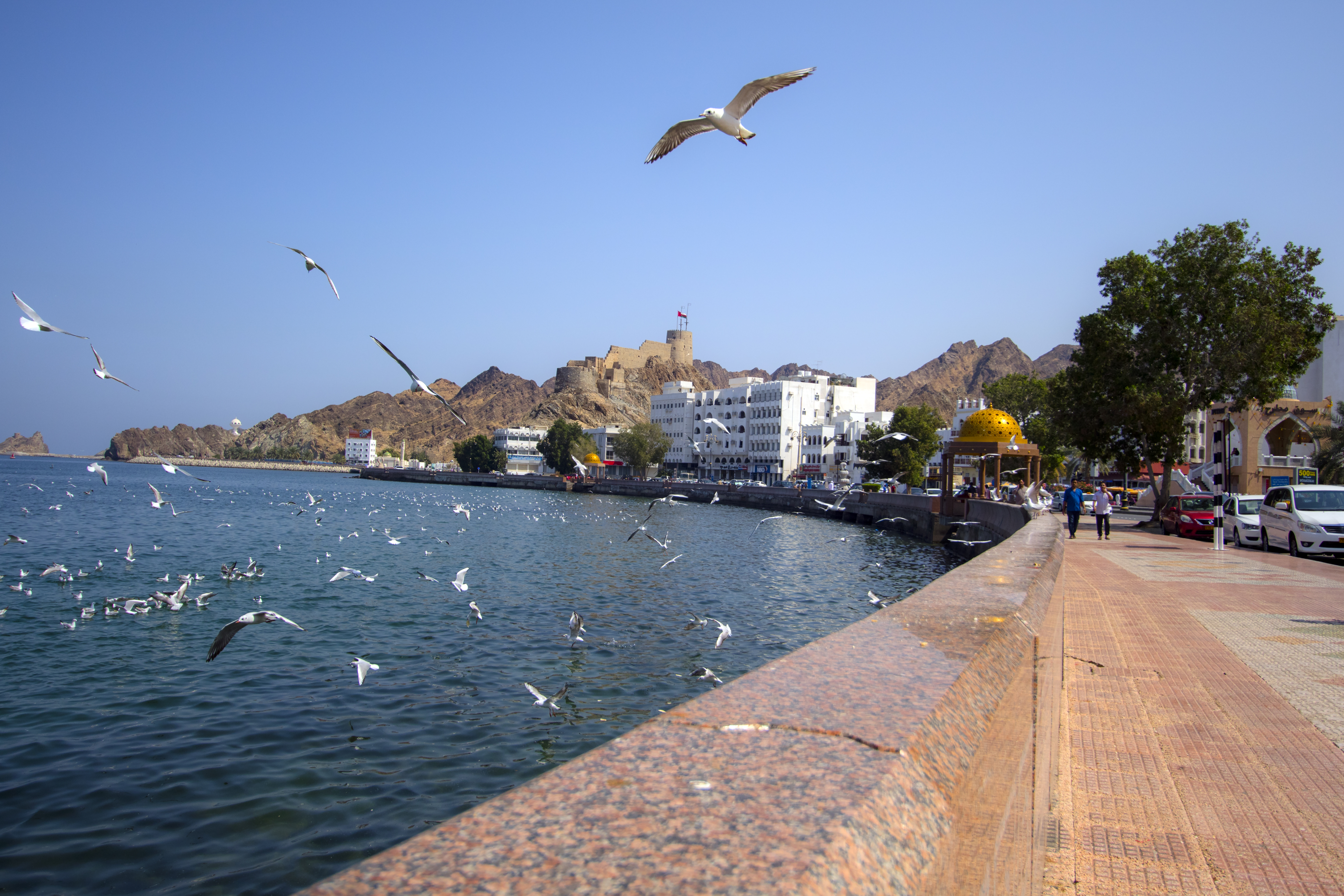 Muscat (Arabic: مسقط, Masqaṭ pronounced [ˈmasqatˤ]) is the capital and largest metropolitan city of Oman. It is also the seat of government and largest city in the Governorate of Muscat. According to the National Centre for Statistics and Information (NCSI), the total population of Muscat Governorate reached 1.56 million as of September 2015.